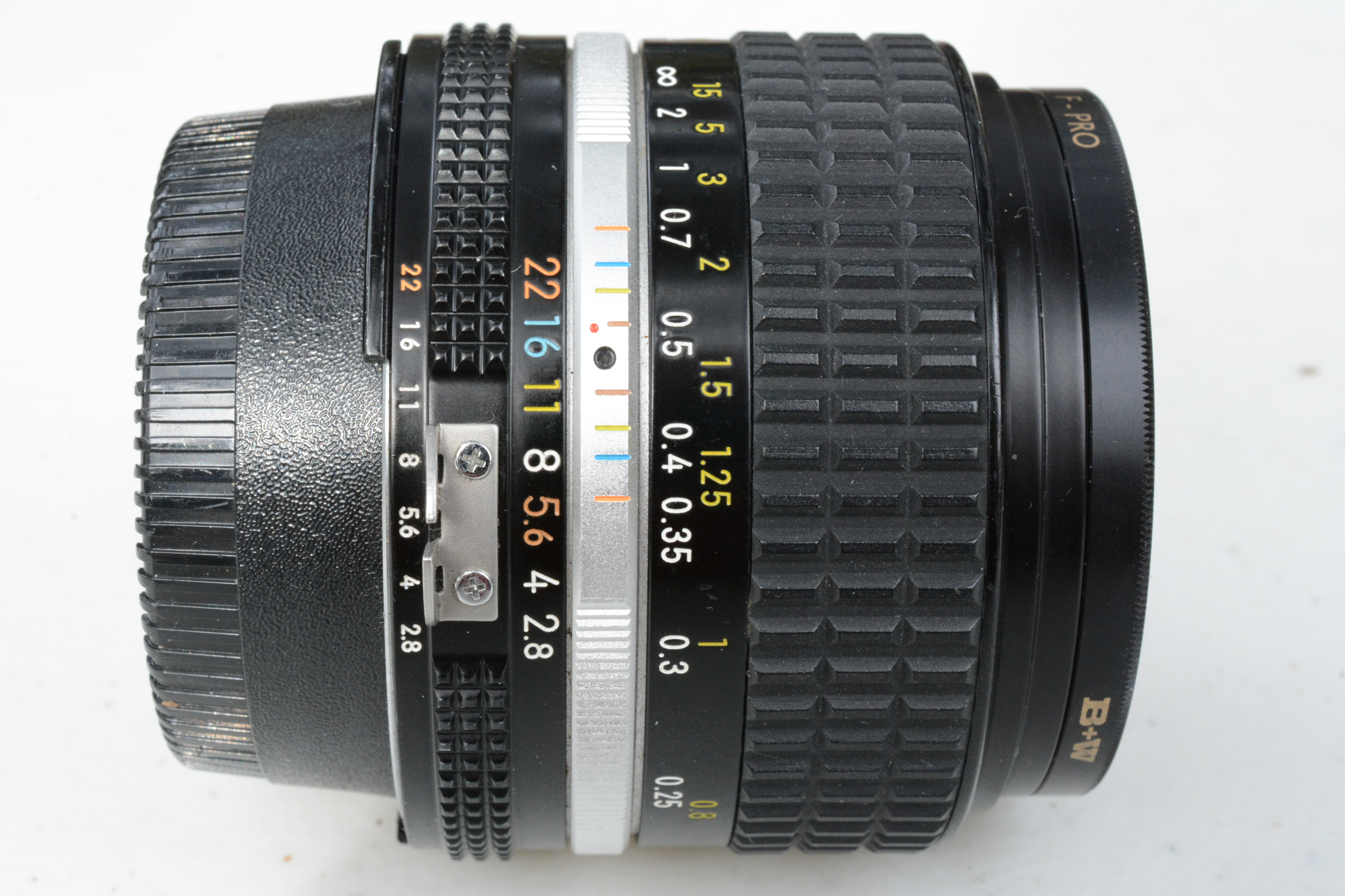 Nikon 28mm f/2.8 manual-focus lens